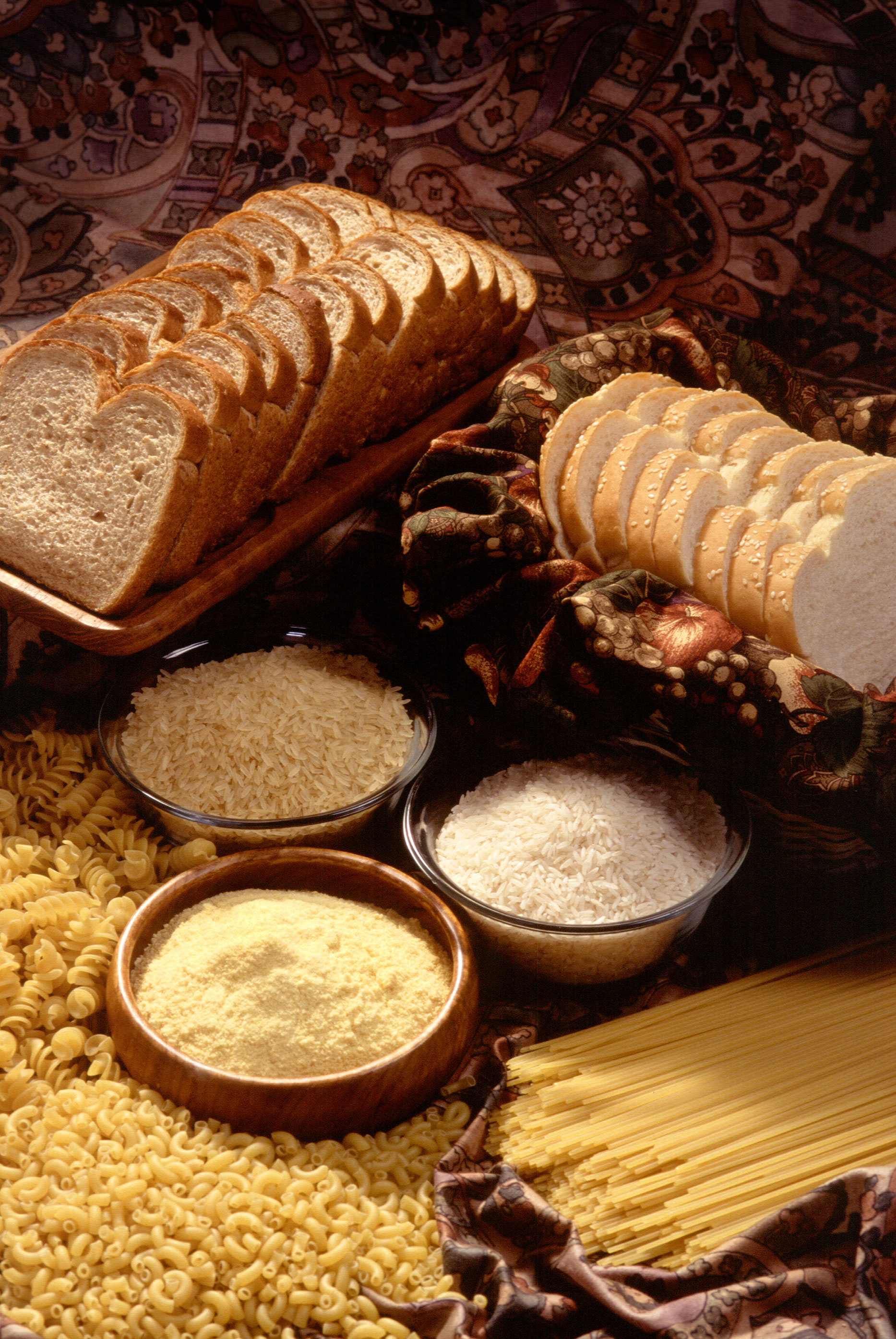 grain products: bread, rice, cornmeal, and pasta